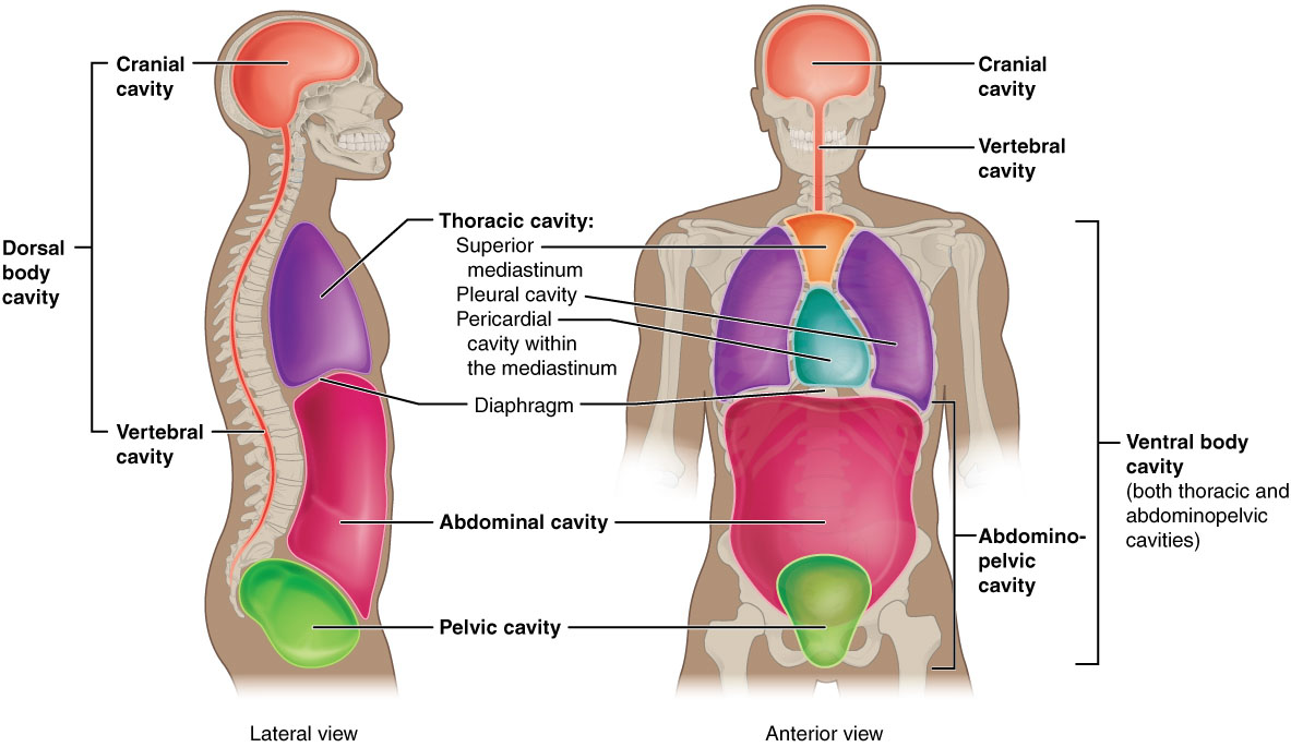 Figure 14: Body cavities.